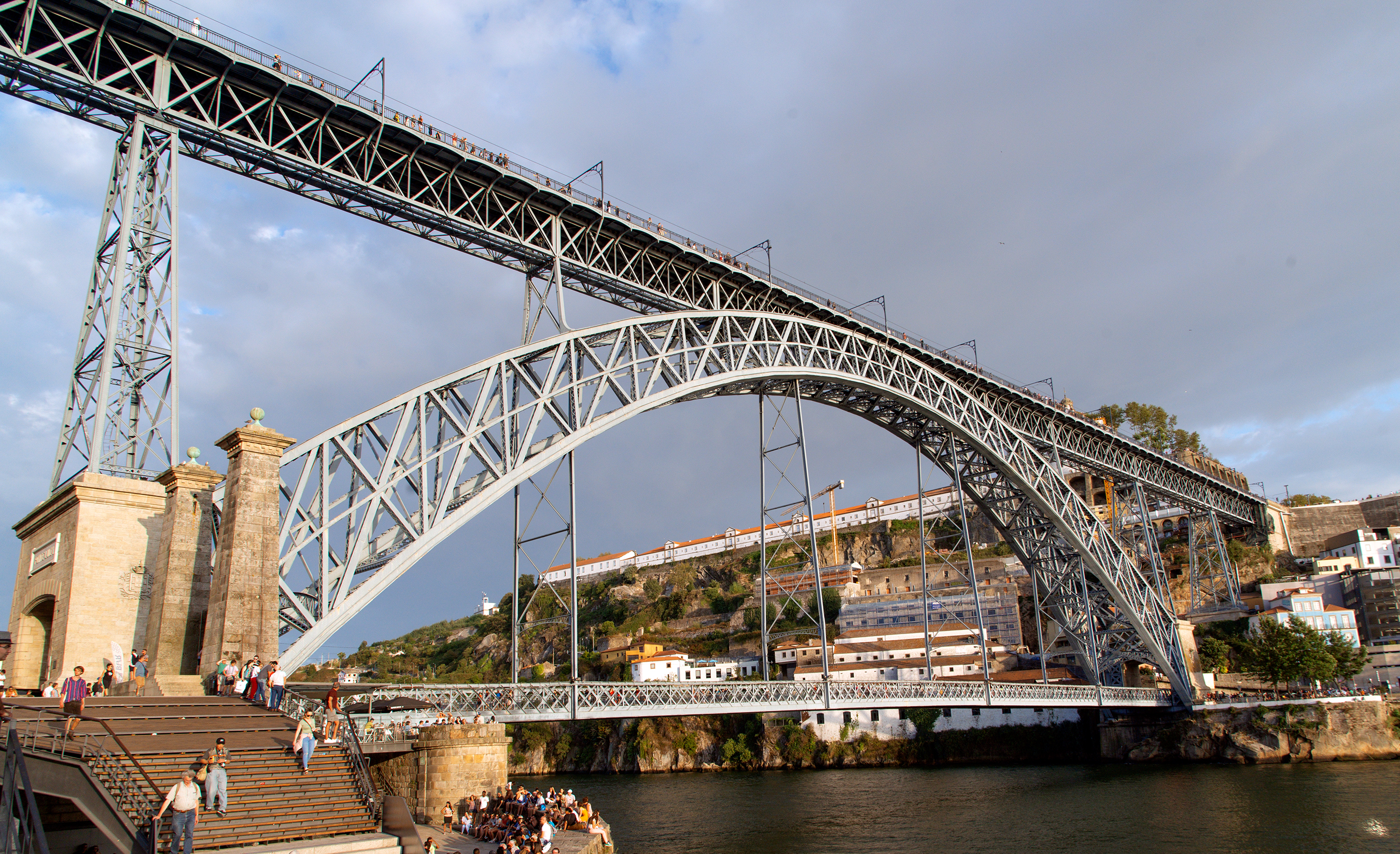 Luís I Bridge, between the cities of Porto and Vila Nova de Gaia in Portugal.